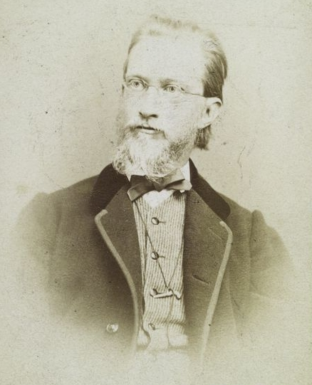 Hubert Leitgeb